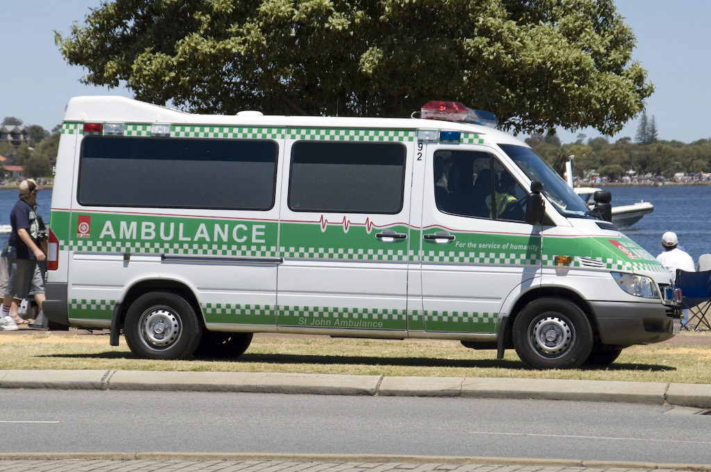 Saint John Ambulance 92 (Western Australia)